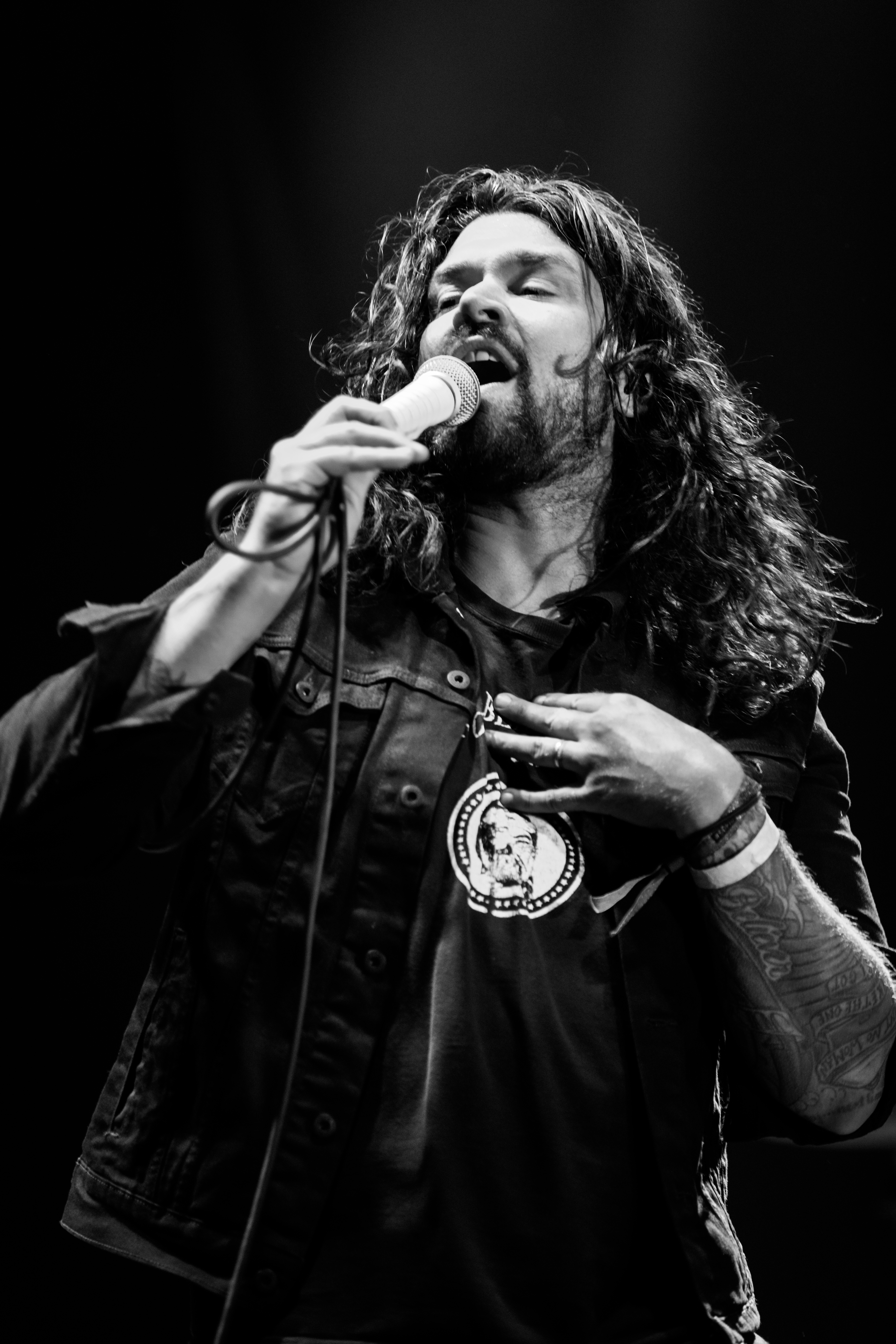 Taking Back Sunday - Rock am Ring 2018